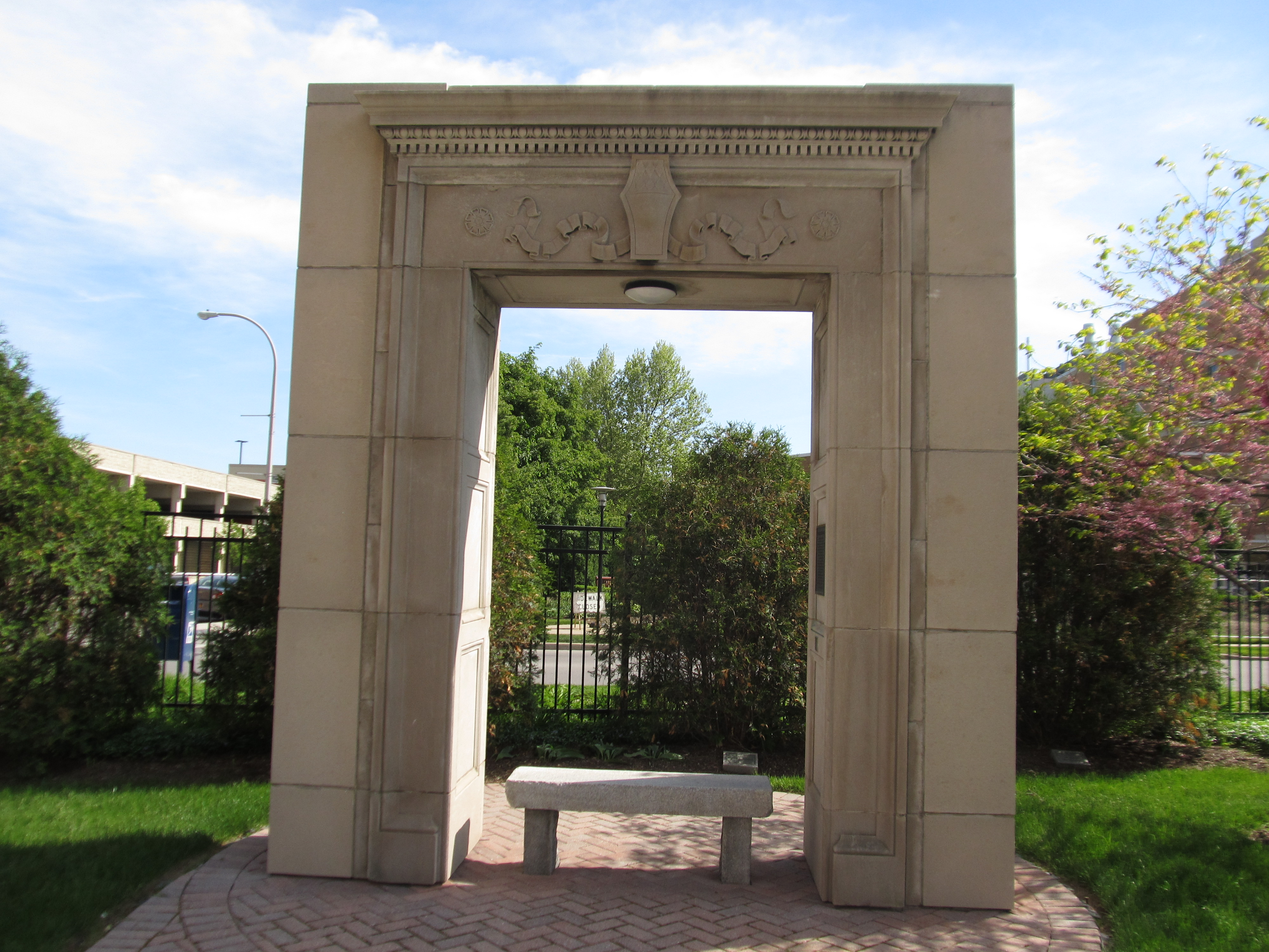 The Simpson Arc